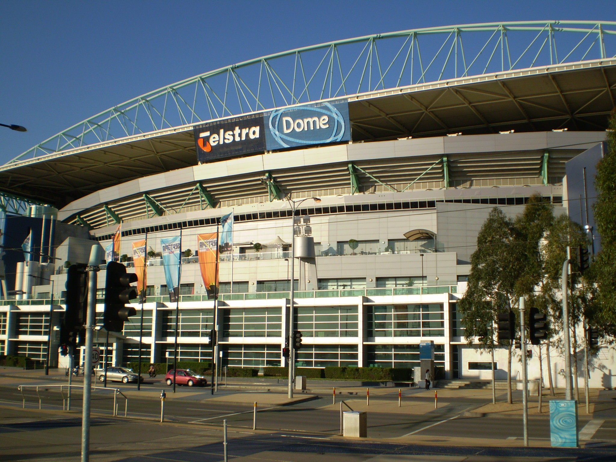 A view of Telstra Dome from Docklands. Taken by Brad Dixon on September 25th, 2007 and released into the Public Domain.